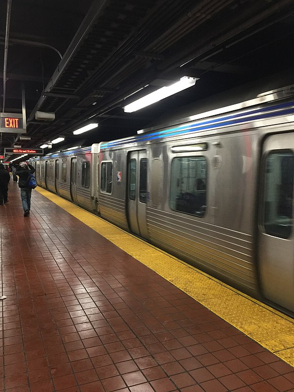 SEPTA